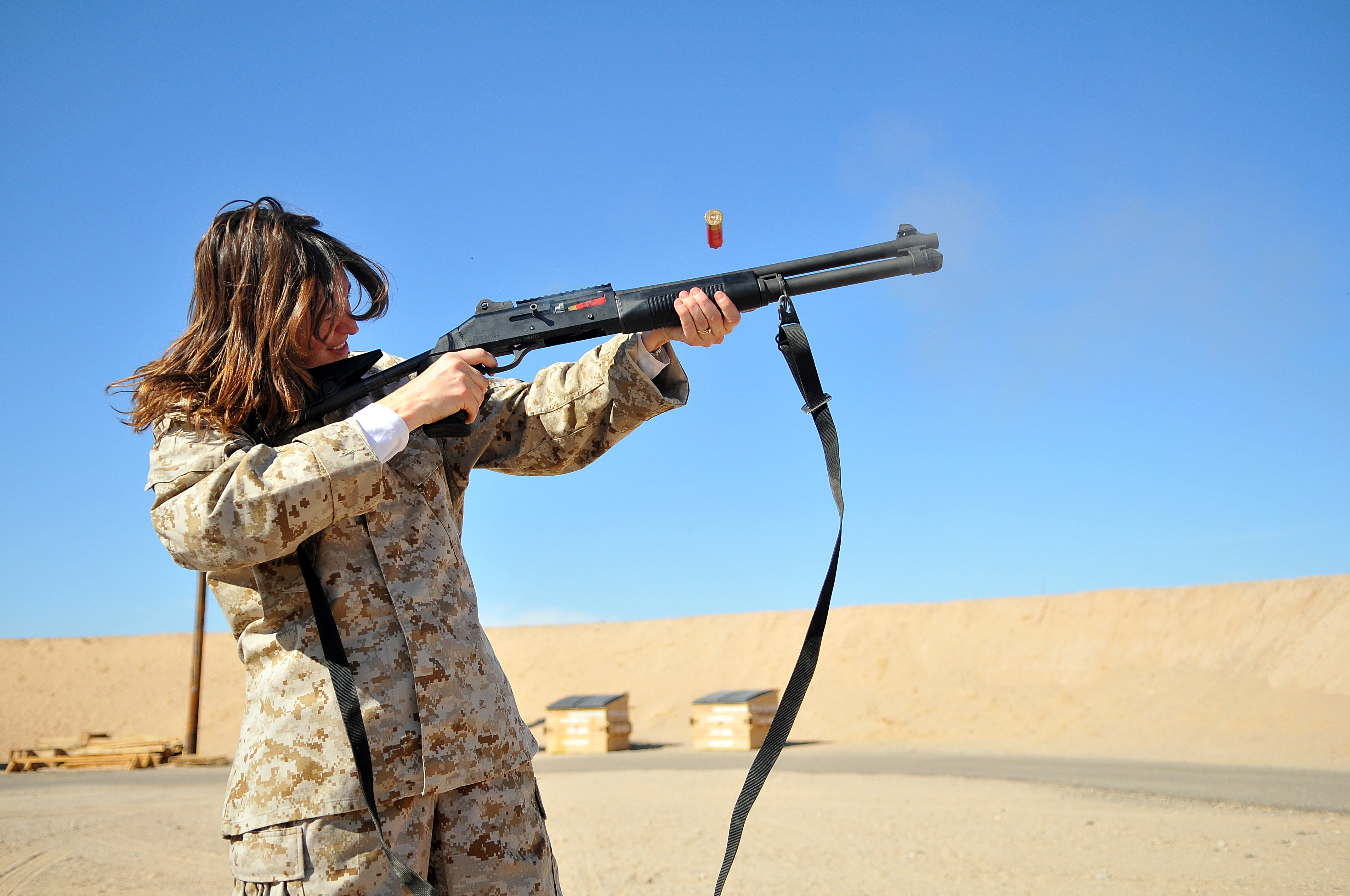 Laura Nerad, Marine Aircraft Group 13 spouse, fires an M-1014 shotgun at the rifle range of the Marine Corps Air Station in Yuma, Ariz., during Marine Attack Squadron 311’s Jane Wayne day Nov. 20, 2009. Jane Wayne days allow family members to experience the cornerstones of Marine training and conditioning, such as physical training and weapons handling. The family members got a taste of the Marine Corps Martial Arts Program, weapons training, obstacle course, combat fitness test and the station’s flight simulator during the squadron’s Jane Wayne day.